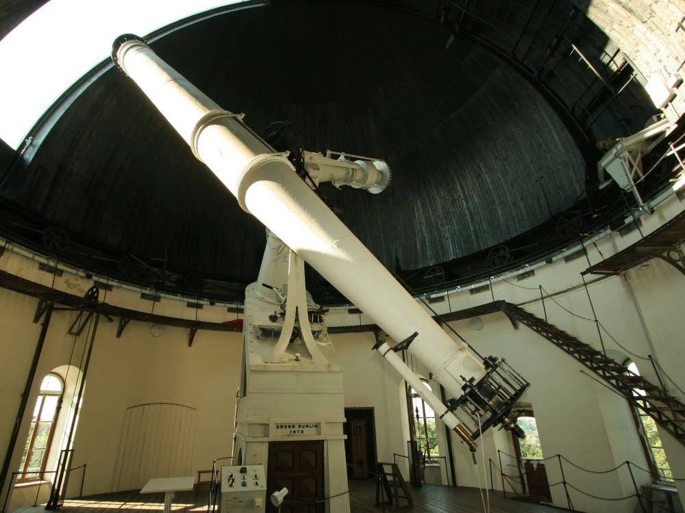 Großer Refraktor der Universitätssternwarte Wien/Great Refractor of the Observatory of the University of Vienna